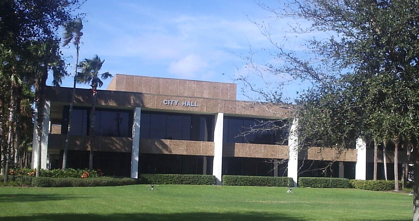 Mikereichold 17:05, 18 January 2006 (UTC) taken by me, Largo, Florida City Hall, from sidewalk facing west.